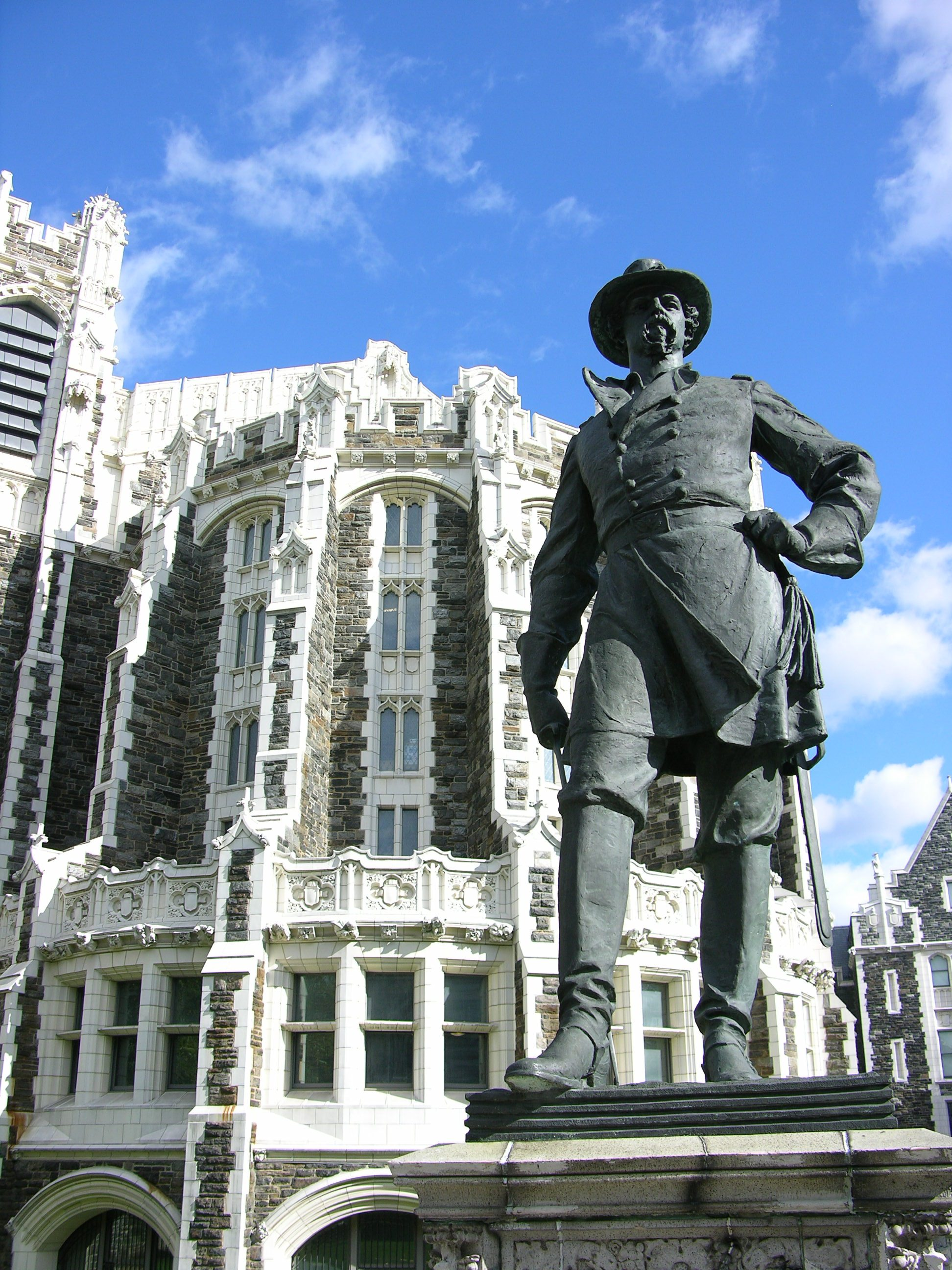 Statue of Alexander S. Webb, in Harlem, New York City. Stands within the campus of City College of New York. Webb was a President of the CCNY and American Civil War general.